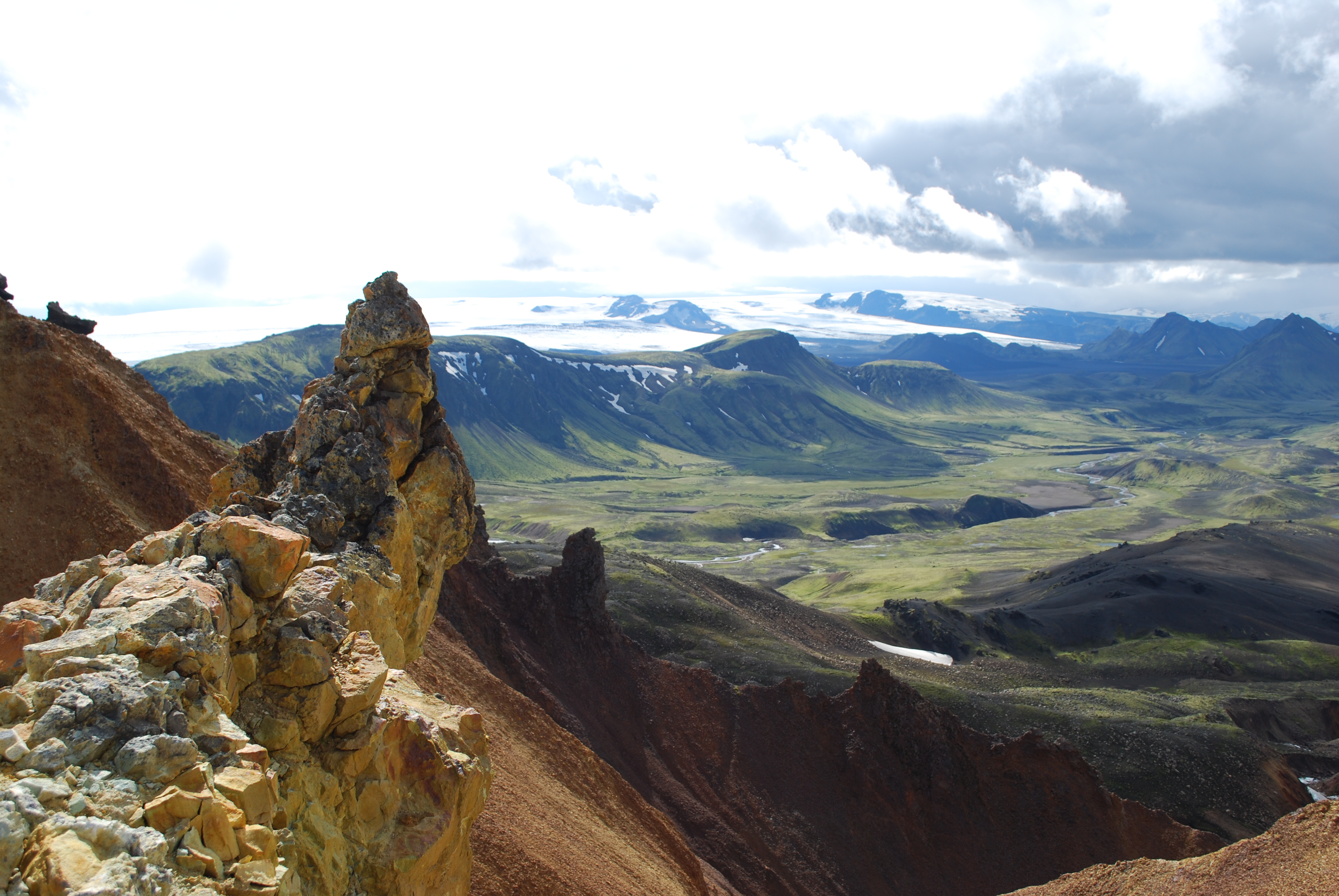 Kaldaklofsfjöll mountain range during path to Landmannalaugar, Iceland